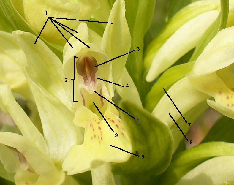 Parts of a flower of Dactylorhiza sambucina 1= Tepals 2= Gynostemium. Also called column. 3= Anther. Each of the two parts contain (up-down) a pollinium, caudicula and viscidium 4= Staminode. Sterile stamen. One can be seen on the other side of the column. 5= Rostellum. A membrane, involved in the prevention of self-pollination 6= Labellum. Modified tepal. 7= Ovary of another flower. The typical torsion of orchids can be seen. 8= ' 9= Style.